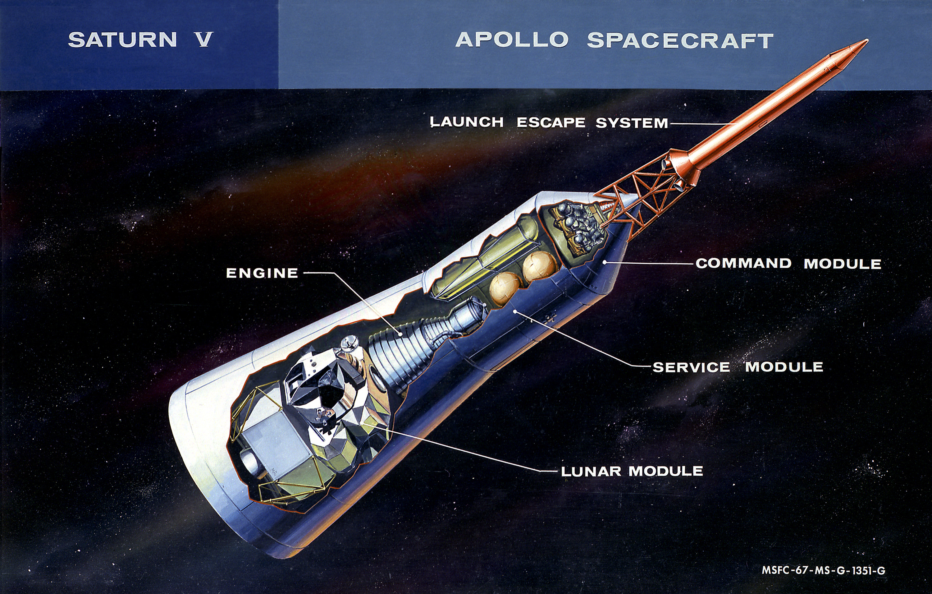 Cutaway view of the Apollo spacecraft configuration aboard the Saturn V rocket.